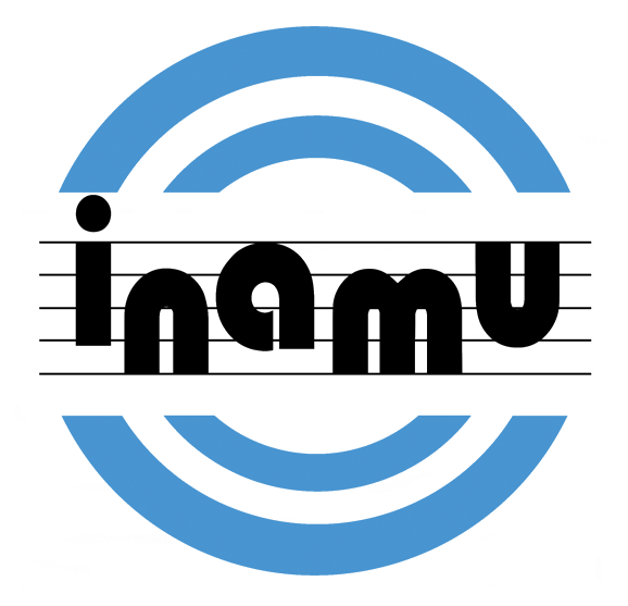 Logo of Instituto Nacional de la Música of Argentina